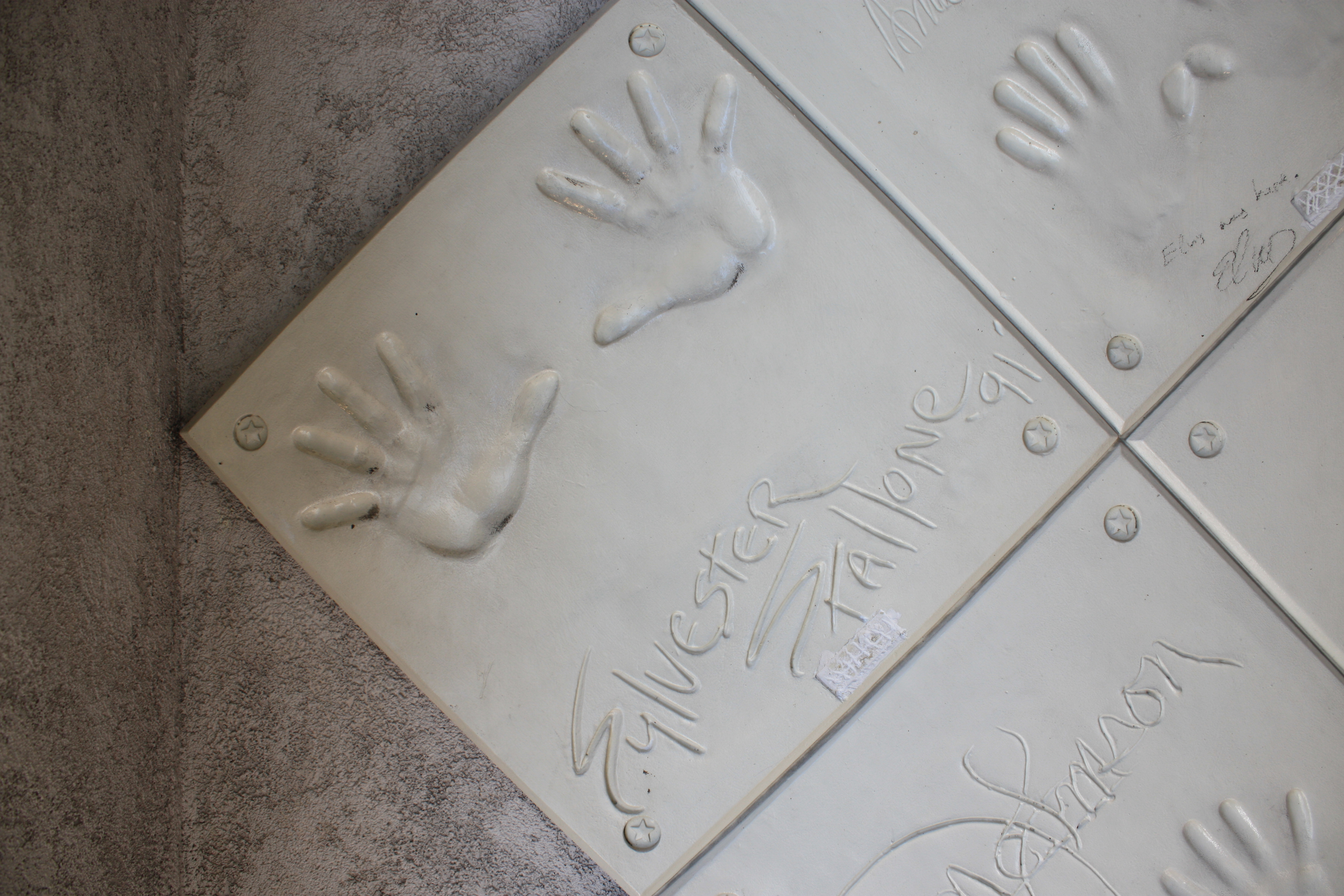 Hand-Prints of Sylvester Stallone from 1991 at the old Planet Hollywood building in Reno/Tahoe.